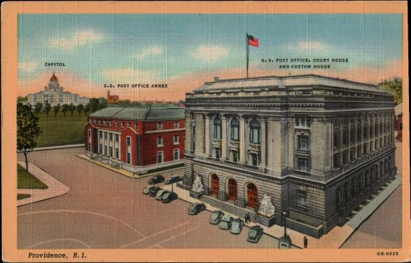 Early 20th Century postcard depicting Providence, RI, including Capitol Building, Post Office, and courthouse. ca 1910